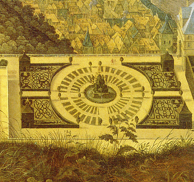 part of a historic view of Heidelberg castle gardens by Jacques Fouquières